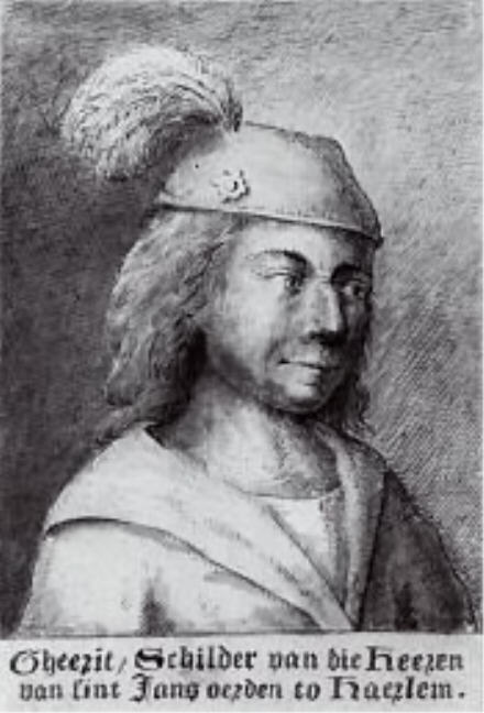 The portrait of Geertgen tot Sint Jans (second half 15th century), was probably made in 17th century. Inscribed "Gheerit, Schilder van die Heeren van sint Jans oerden to Haerlem." The original drawing is kept in the North Holland Archives. It was published as the frontispiece to Geschiedkundige aanteekeningen over Haarlemsche schilders, by A. van der Willigen Pz., De Erven F. Bohn, Haarlem, 1866.